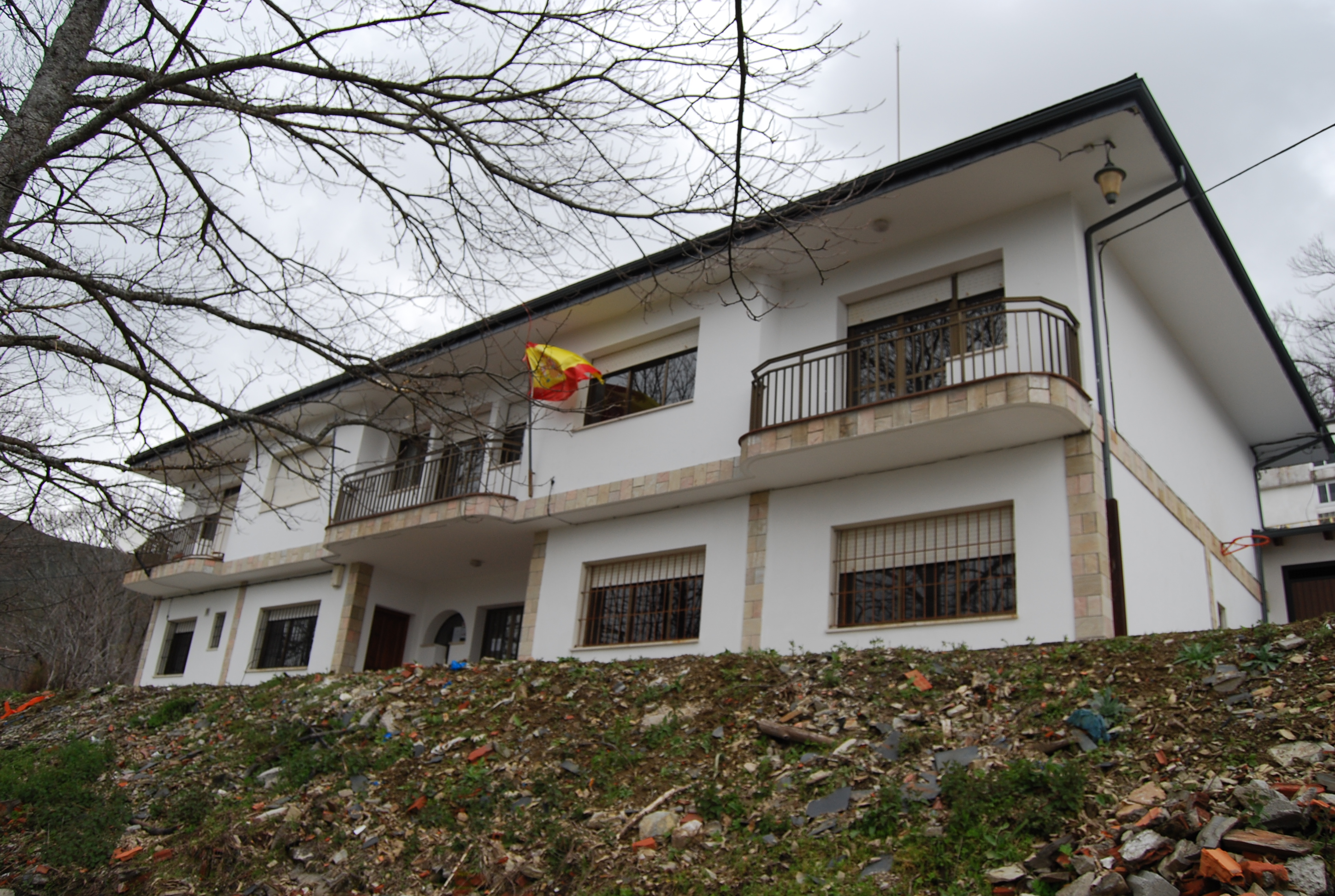 Oencia (León, Spain). Town hall